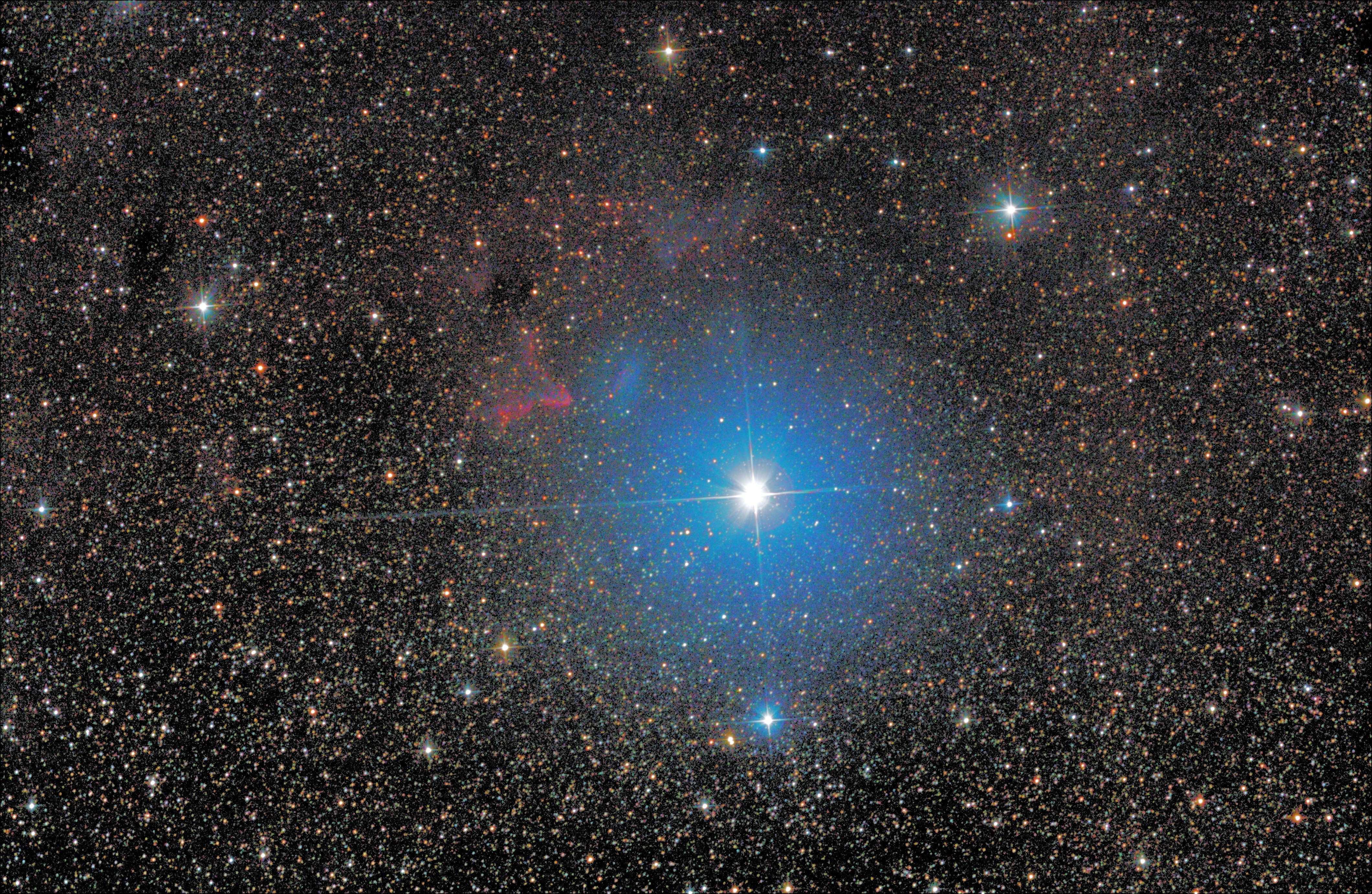 Amateur image of Gamma Cassiopeiae and the associated nebulosity in IC63 and IC59. Made using a Skywatcher 130P-DS, EQ3 tripod and astro-modified Canon 450D.